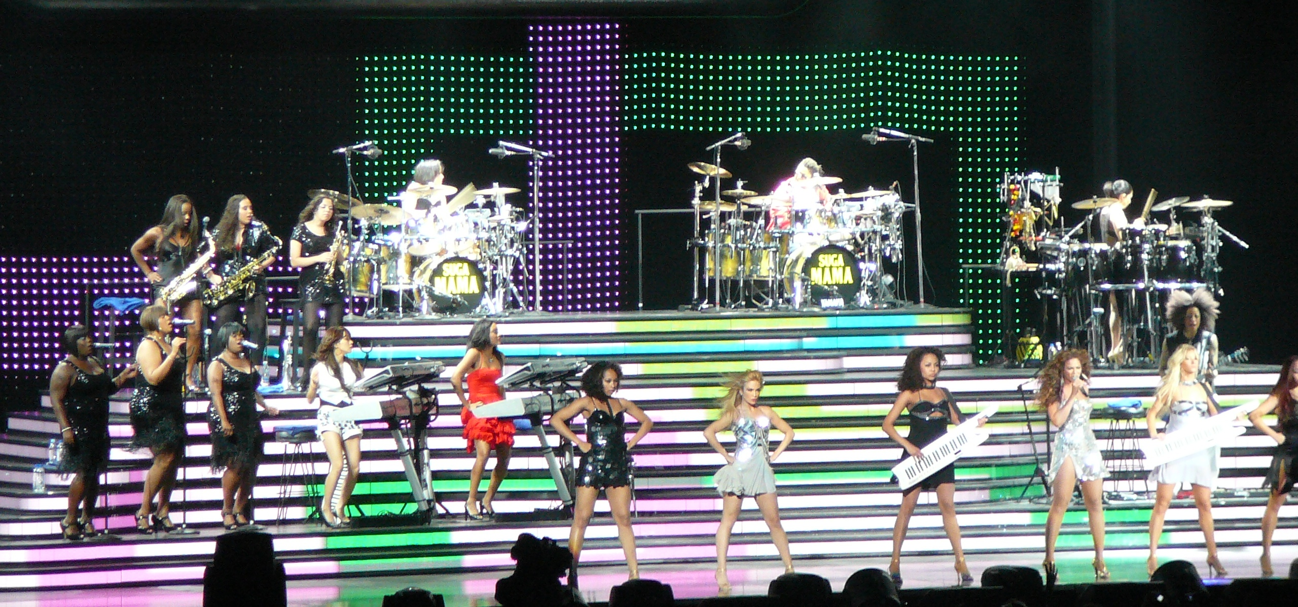 Beyoncé Knowles singing "Green Light"